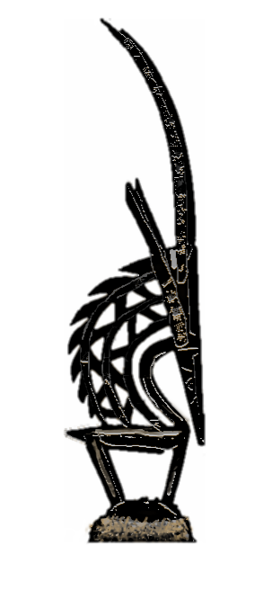 The Chi Wara / Chiwara / Chi-Wara mask of the Bambara people of Mali. This is a drawing of the Male (usually paired with a female), and is worn in a farming and fertility ceremony. Has become emblematic of African art, and this style of male was influential to modernist European artists.